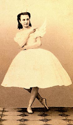 Anna Sobeshanskaya